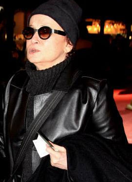 The Brazilian actress Joana Fomm, during a movie festival in Gramado, RS, Brazil. Remix of the original photo, where Joana is aside the journalist Nathy Silva.